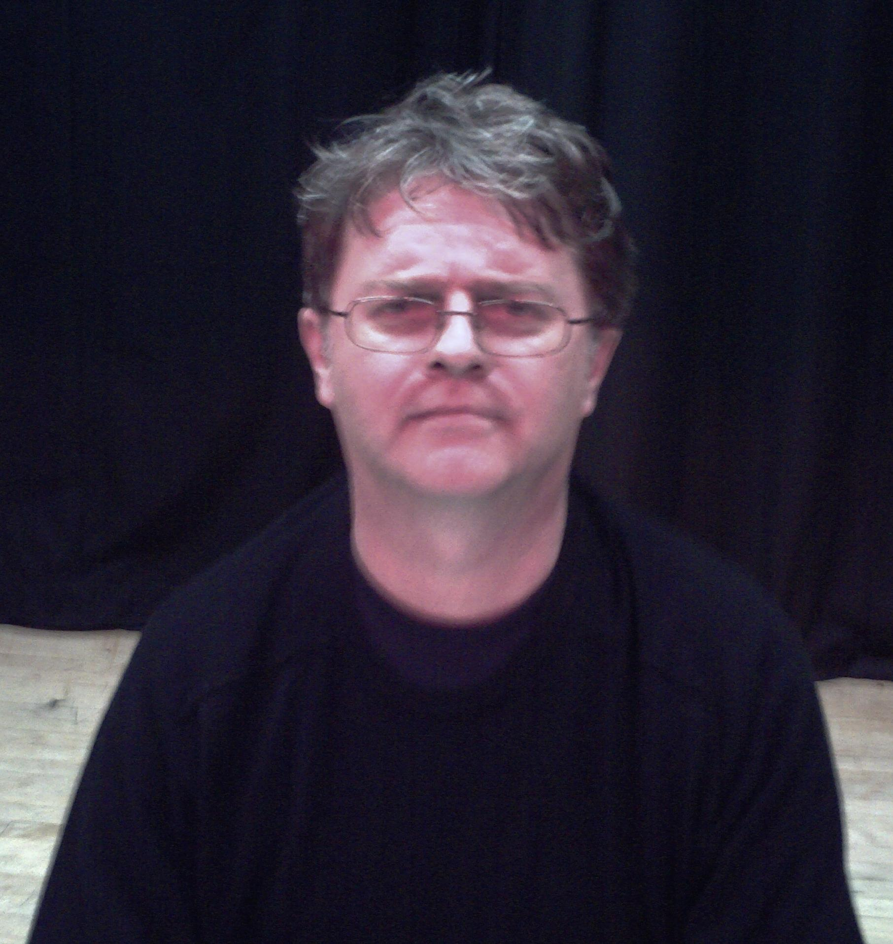 Paul Merton at Ely Maltings, signing his book Silent Comedy.